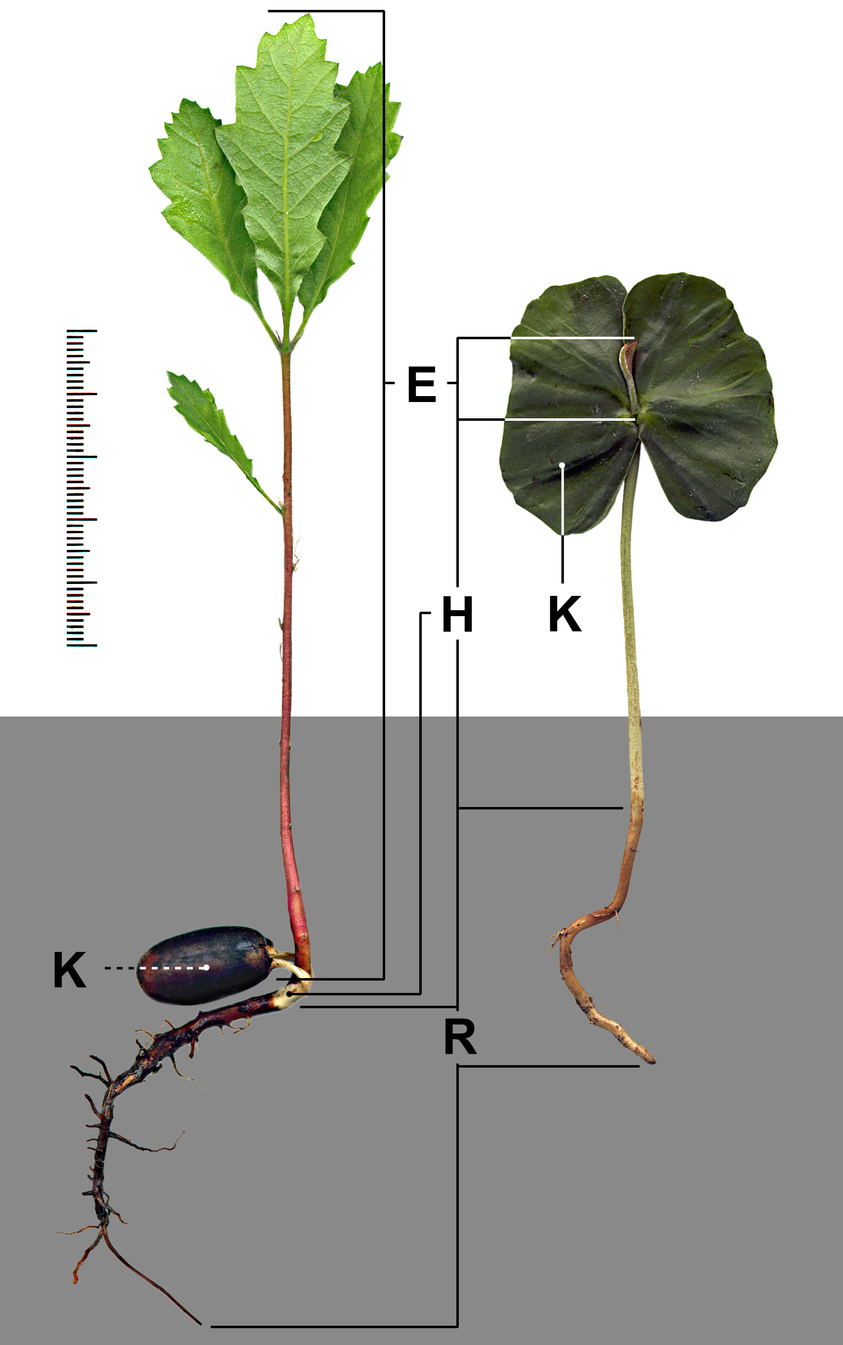 Hypogeous and Epigeous germination of Quercus cerris and Fagus moesiaca (scan: Mihailo Grbić)